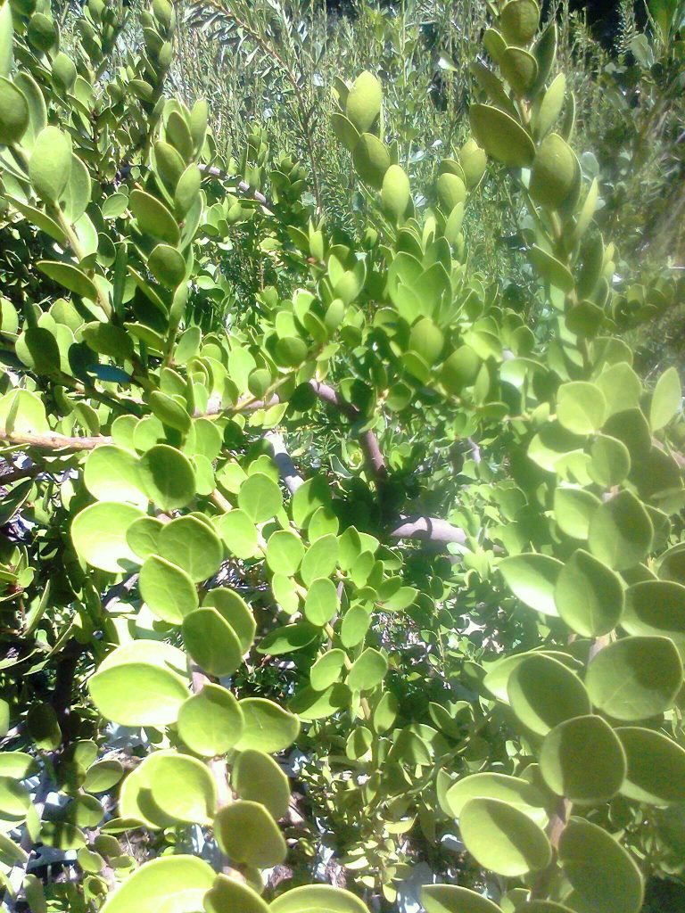 Robsonodendron maritimum - Kirstenbosch - Cape Town